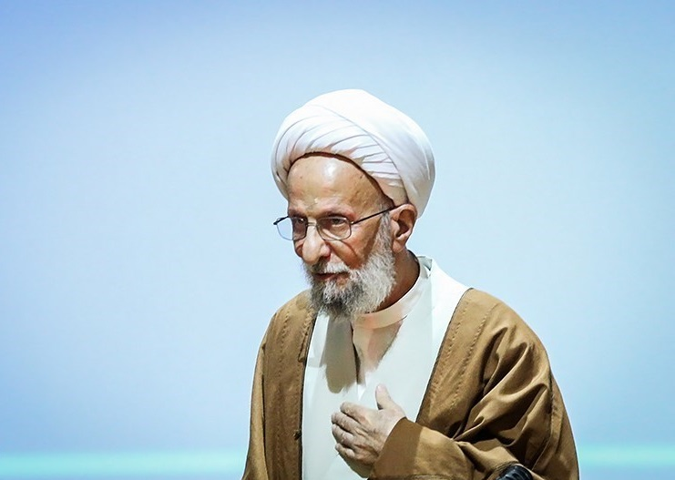 Mohammad-Taqi Mesbah-Yazdi in Principlists Convention